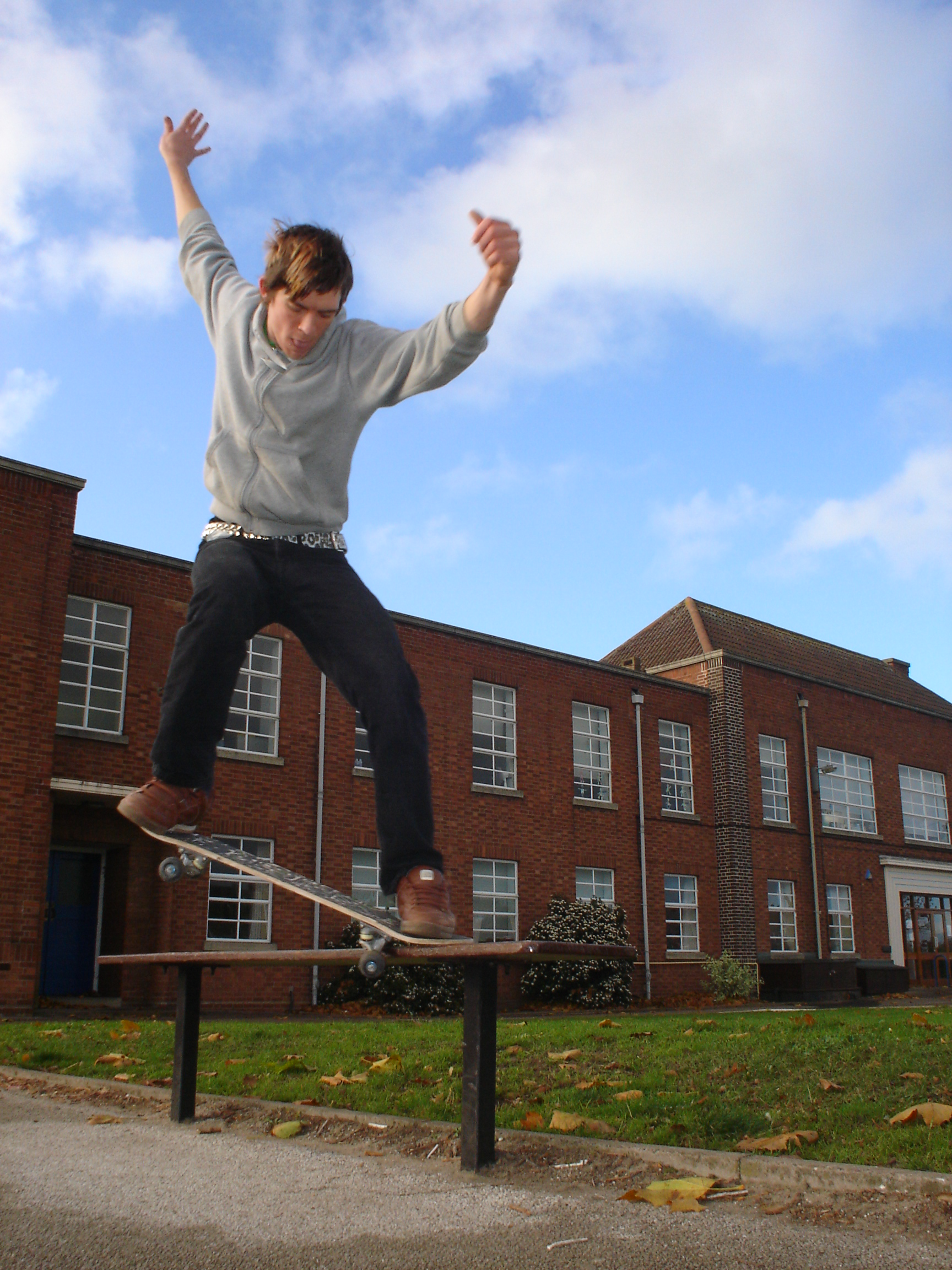 Ash Of Smash